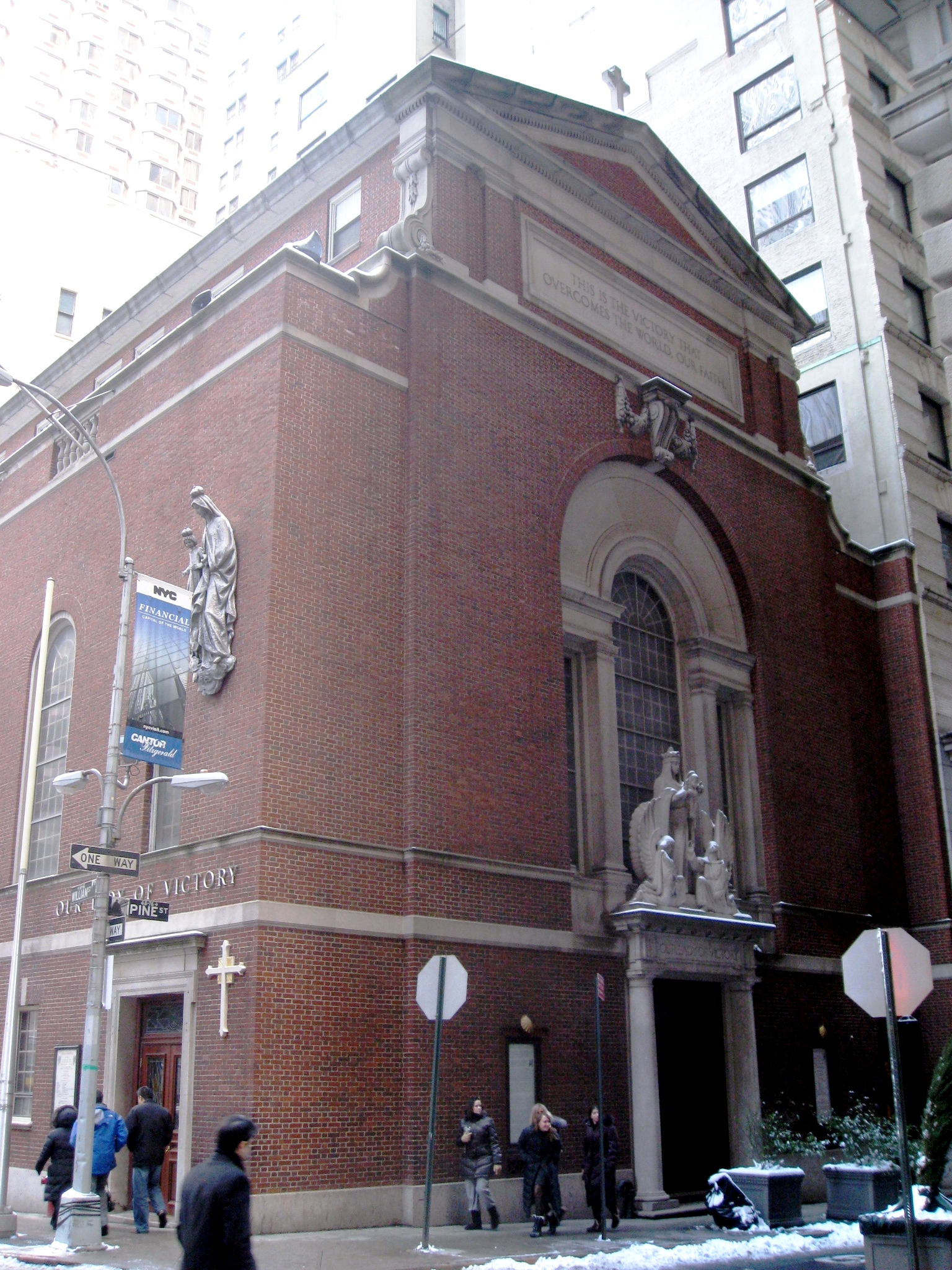 The Church of Our Lady of Victory is a Roman Catholic parish church in the Roman Catholic Archdiocese of New York, located at 60 William Street, Manhattan, New York City. It was established in 1944 at 23 William Street until 1945 when it moved to its current location. The church was built 1946 to the designs of the prominent architectural firm Eggers & Higgins.